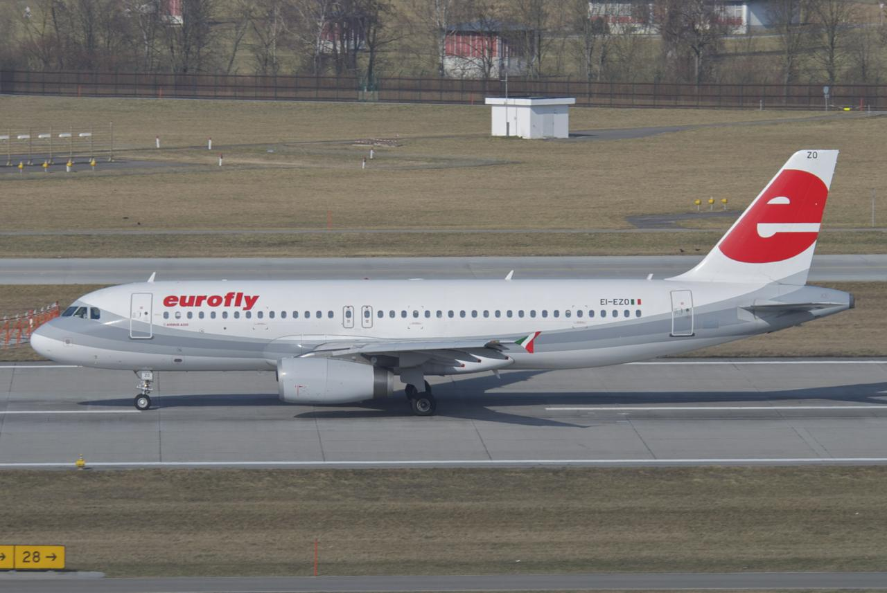 Eurofly Airbus A320-232; EI-EZO@ZRH;03.03.2012/642dc